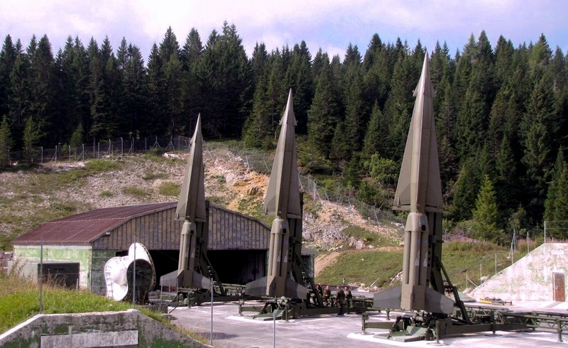 Tuono NATO base.